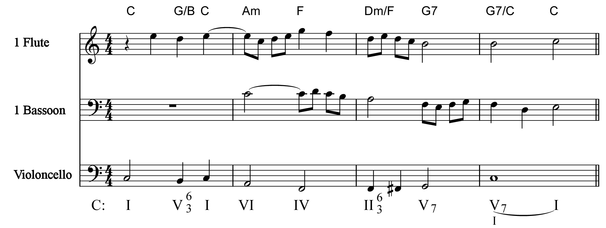 Harmonization in part writing only with real parts.